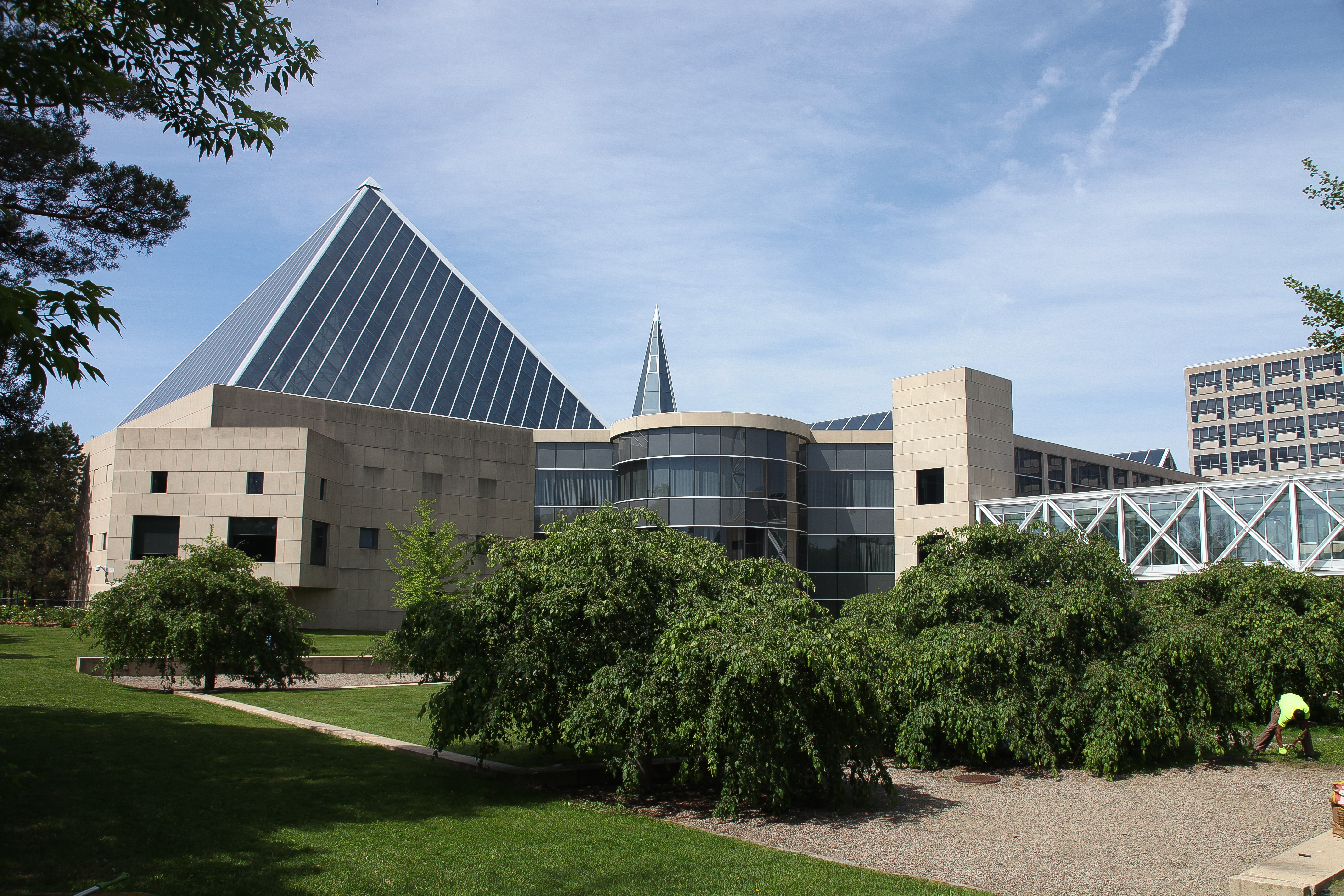 the old city hall, designed by Moshe Safdie